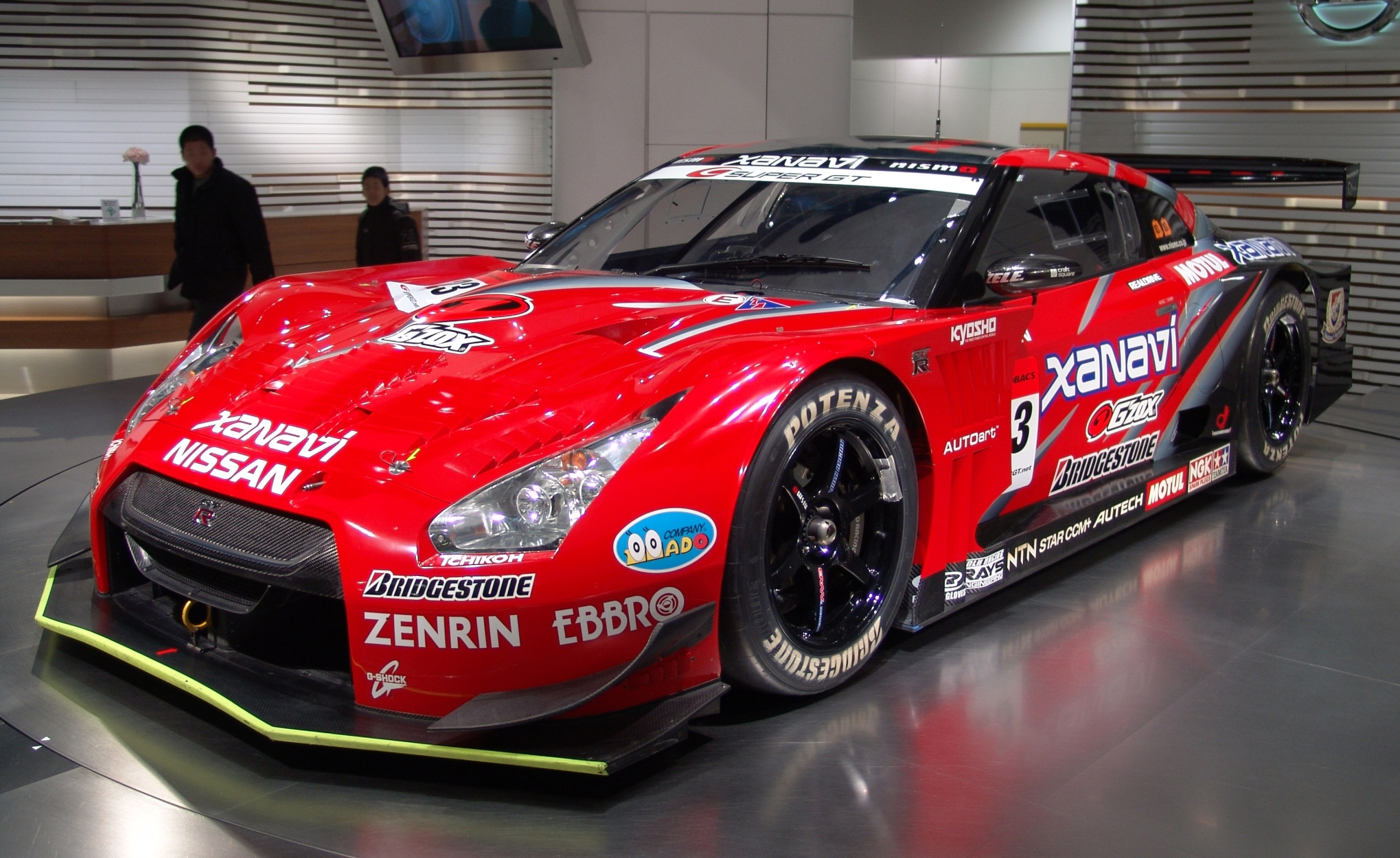 Super GT 2008 champion car.